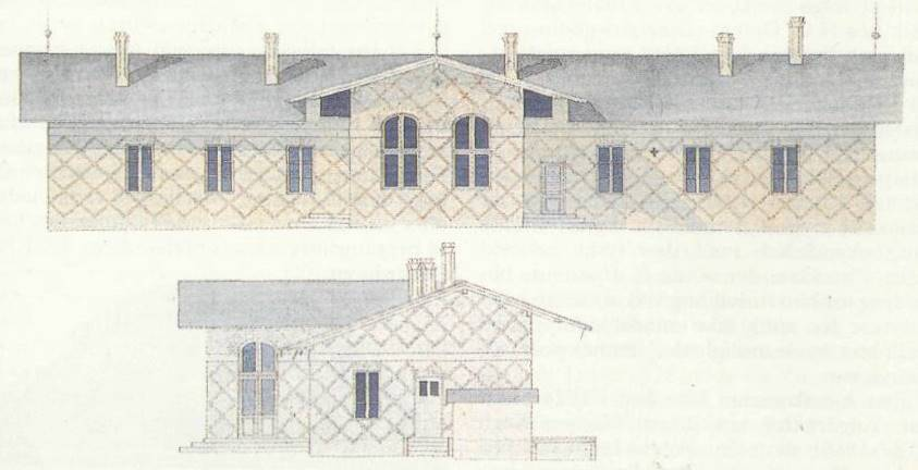 Proposal for a railway station, possible Klosterkrug, on the Flensburg-Tönning line in Southern Schleswig (1853-54).